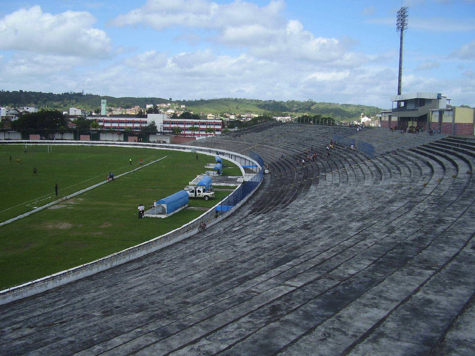 Luiz Viana Filho Stadium - also knonw as Itabunão - Empty.